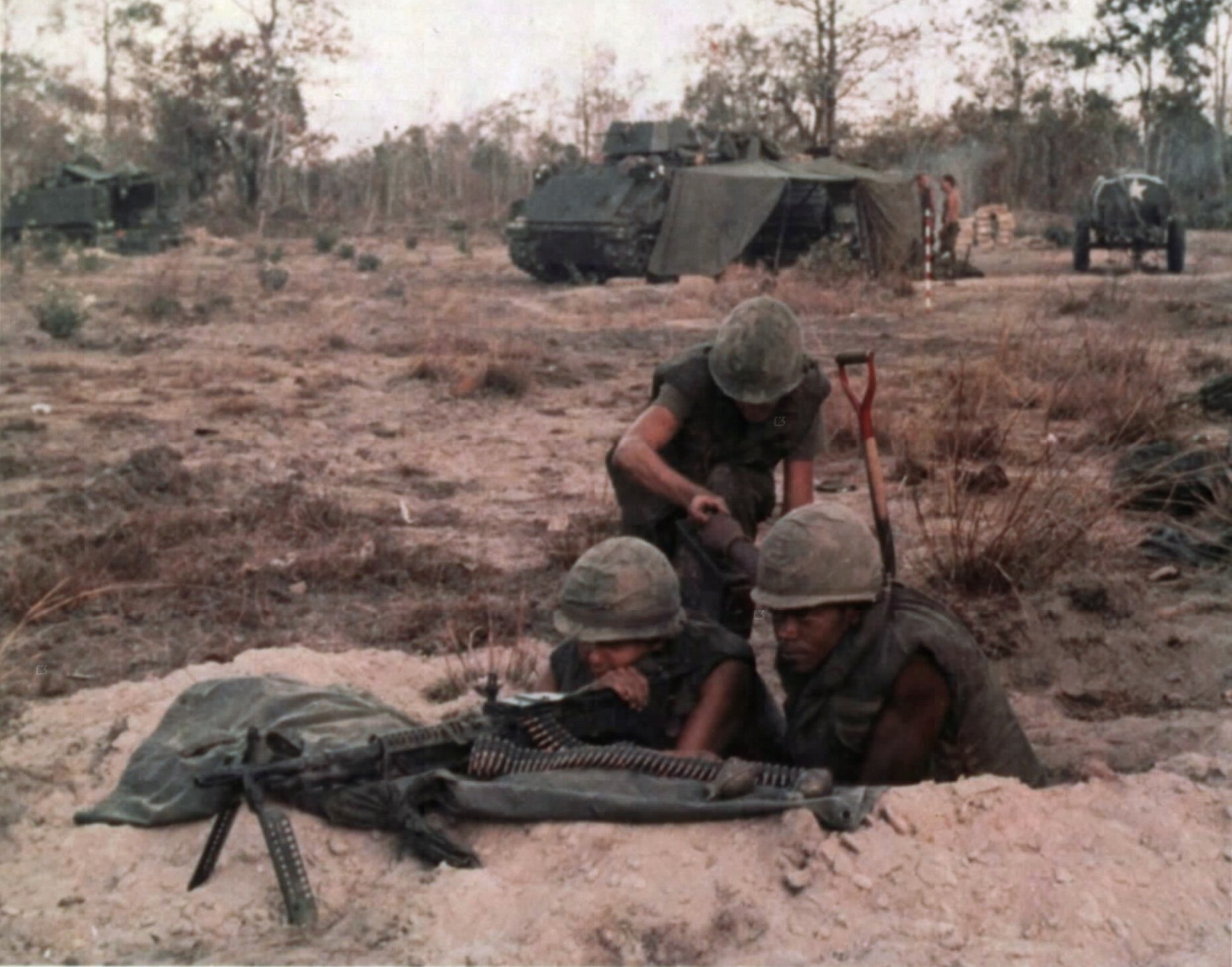 Members of the 2nd Platoon, Company A, 1st Battalion, 50th Infantry (Mechanized), set up an M-60 machine gun position during a search and clear mission. In the background are the M-113 Armored Personnel carriers. Photograph unclassified 30 November 1970.